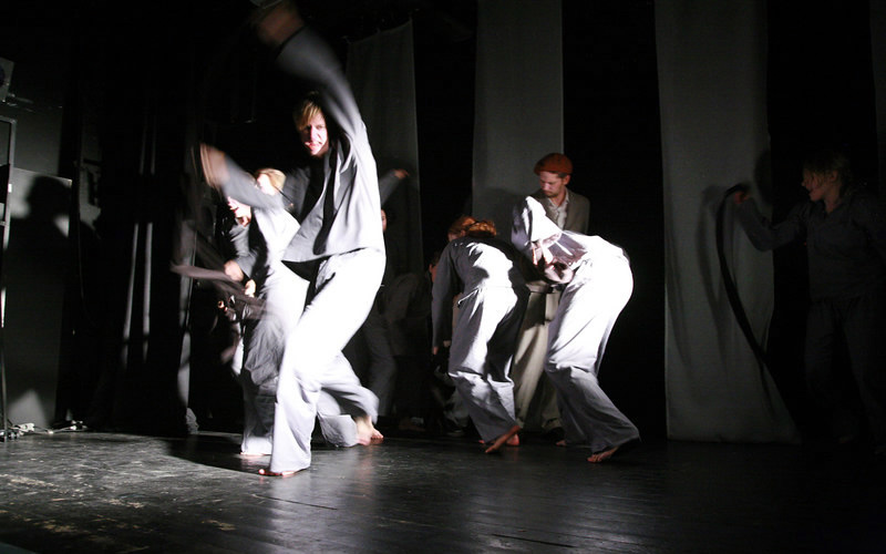 Photo of parts of the theatrical ensemble 'Lunds nya Studentteater' during rehersals for the autumn 2006 play of 'Dante's Divina Commedia'.